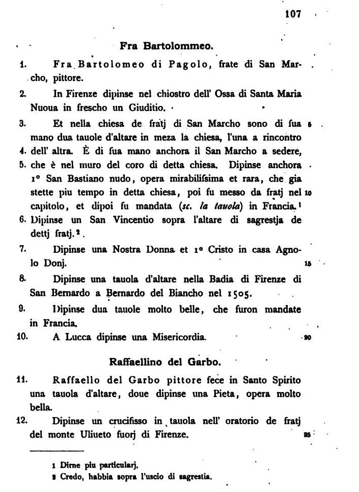 Digitized page from Il Codice Magliabechiano scritte da Anonimo Fiorentino, 16th century. In Italian, with an Introduction by Karl Frey (1857-1917) in German. Publication date 1892. [digitized by Google from a collection at Harvard University] .